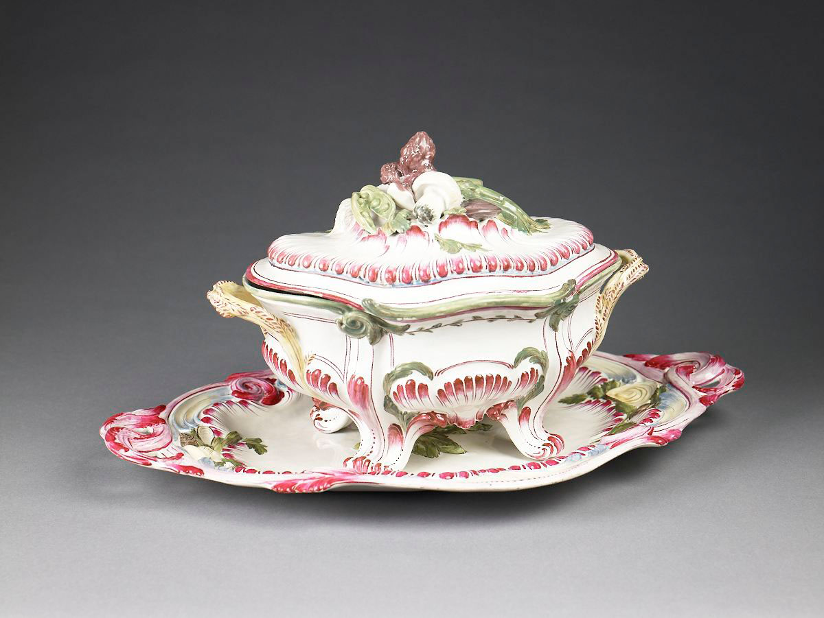 A covered tureen on stand from Niderviller, France. This faïence piece is from the 18th century.